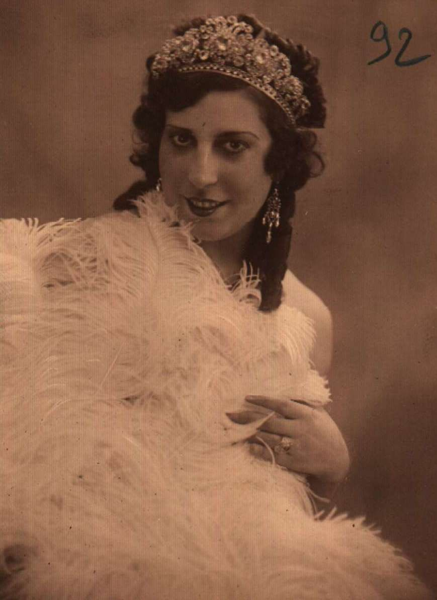 Tsvetana Tabakova